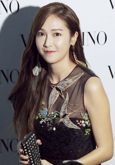 Jessica Jung at Marina Bay Sands Valentino event on January 13, 2016.